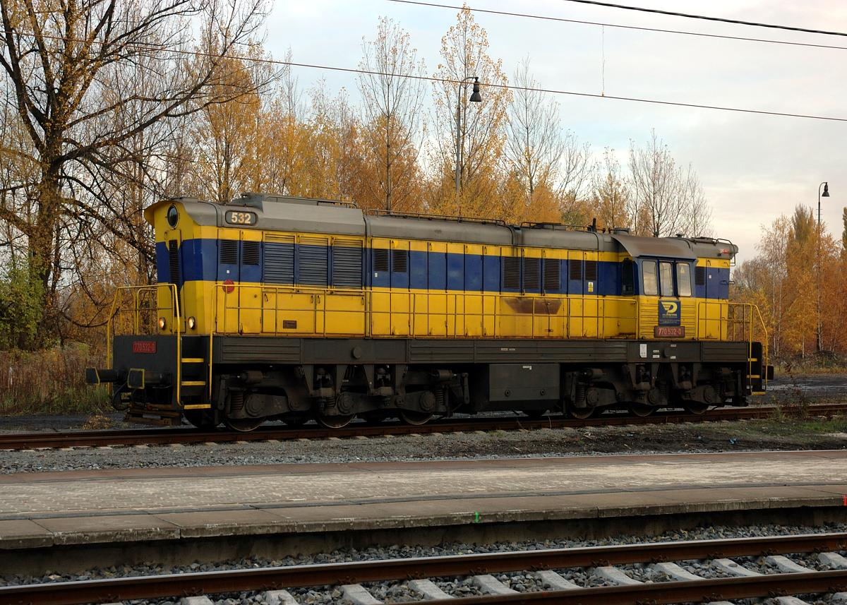 Locomotive 770.532 of operator OKD, Doprava; station Ostrava střed, Czech Republic